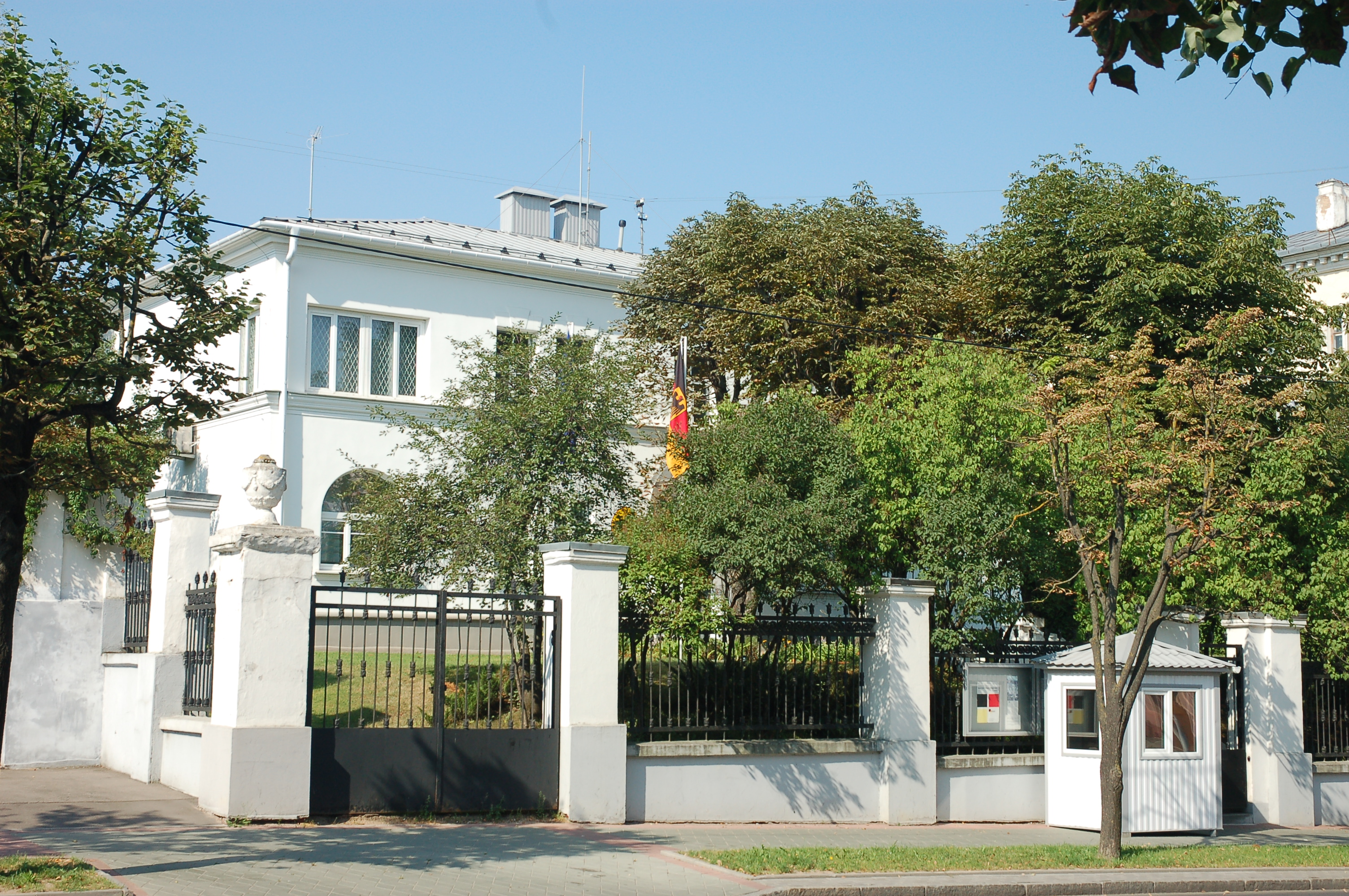 Minsk, 26 Zakharava Street